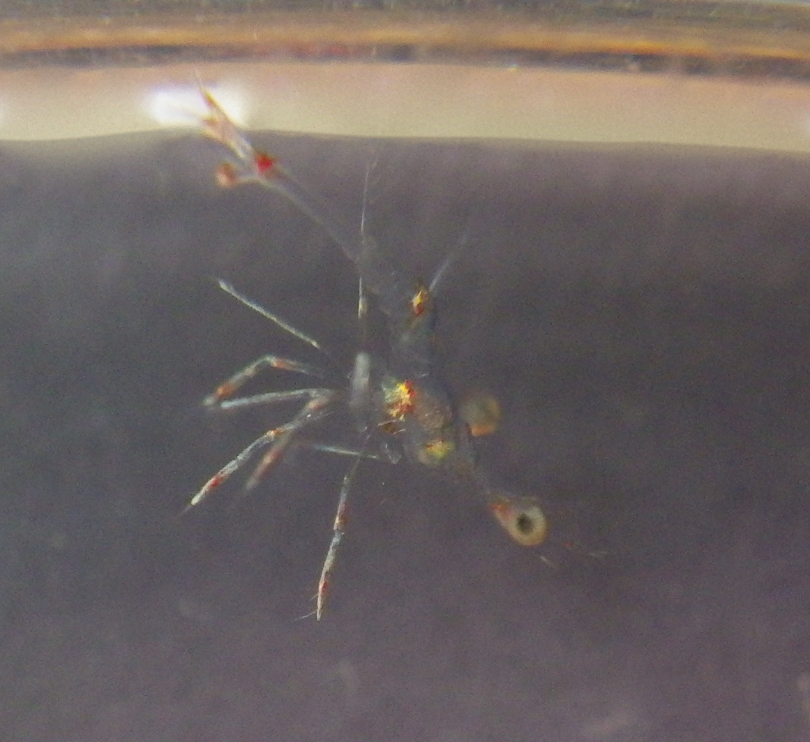 Larval lysmata wurdmanni, about 5 days old, profile view